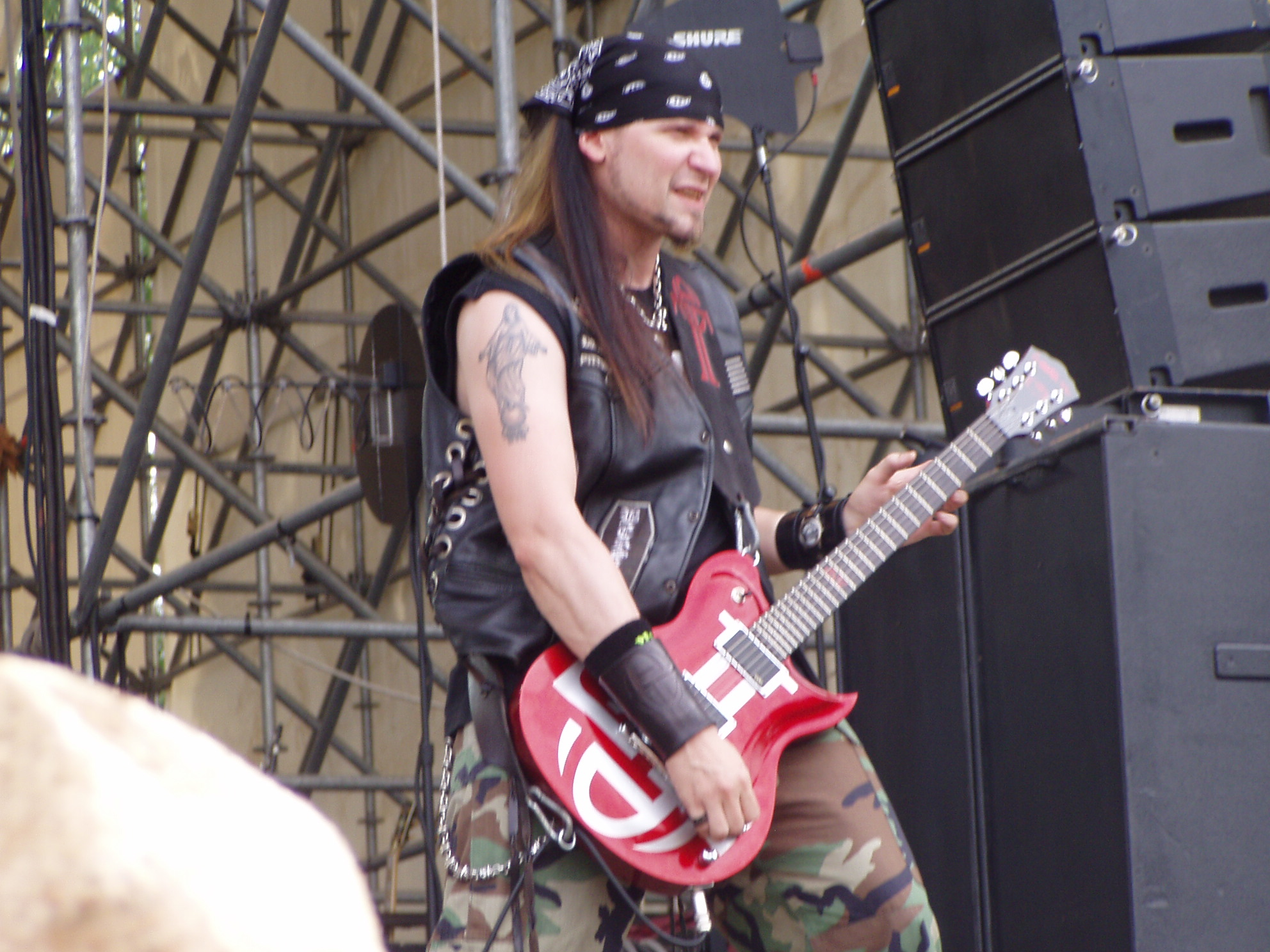 I Black Label Society al Gods of Metal